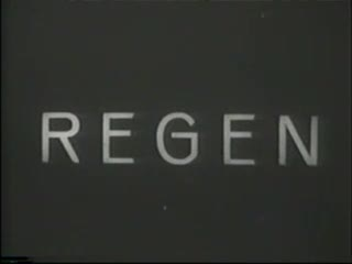 Title screen of Dutch film Regen (1929)